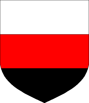 Coat of arms of the von Veilsdorf family.